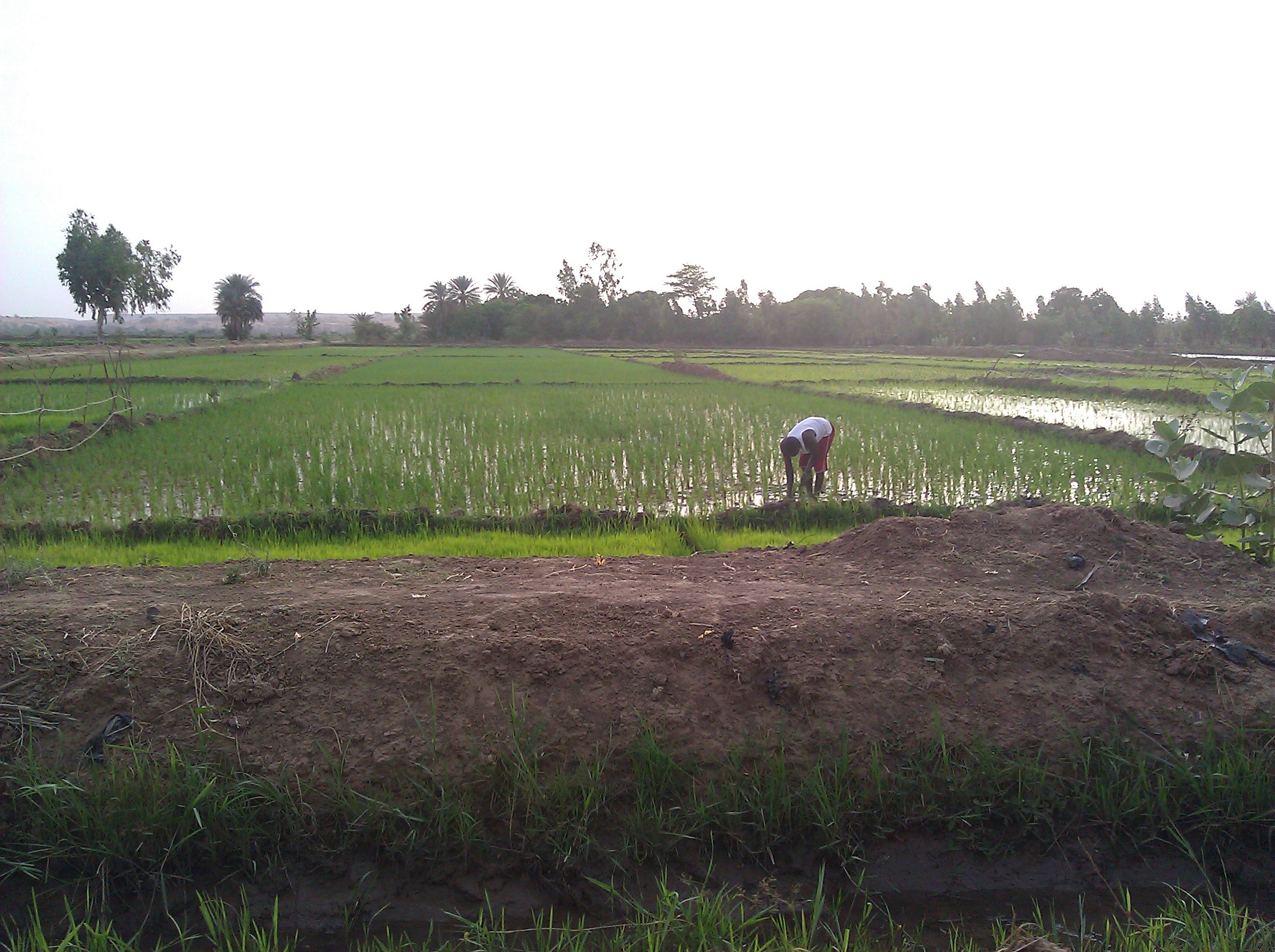 N'Dounga near Niamey, Niger